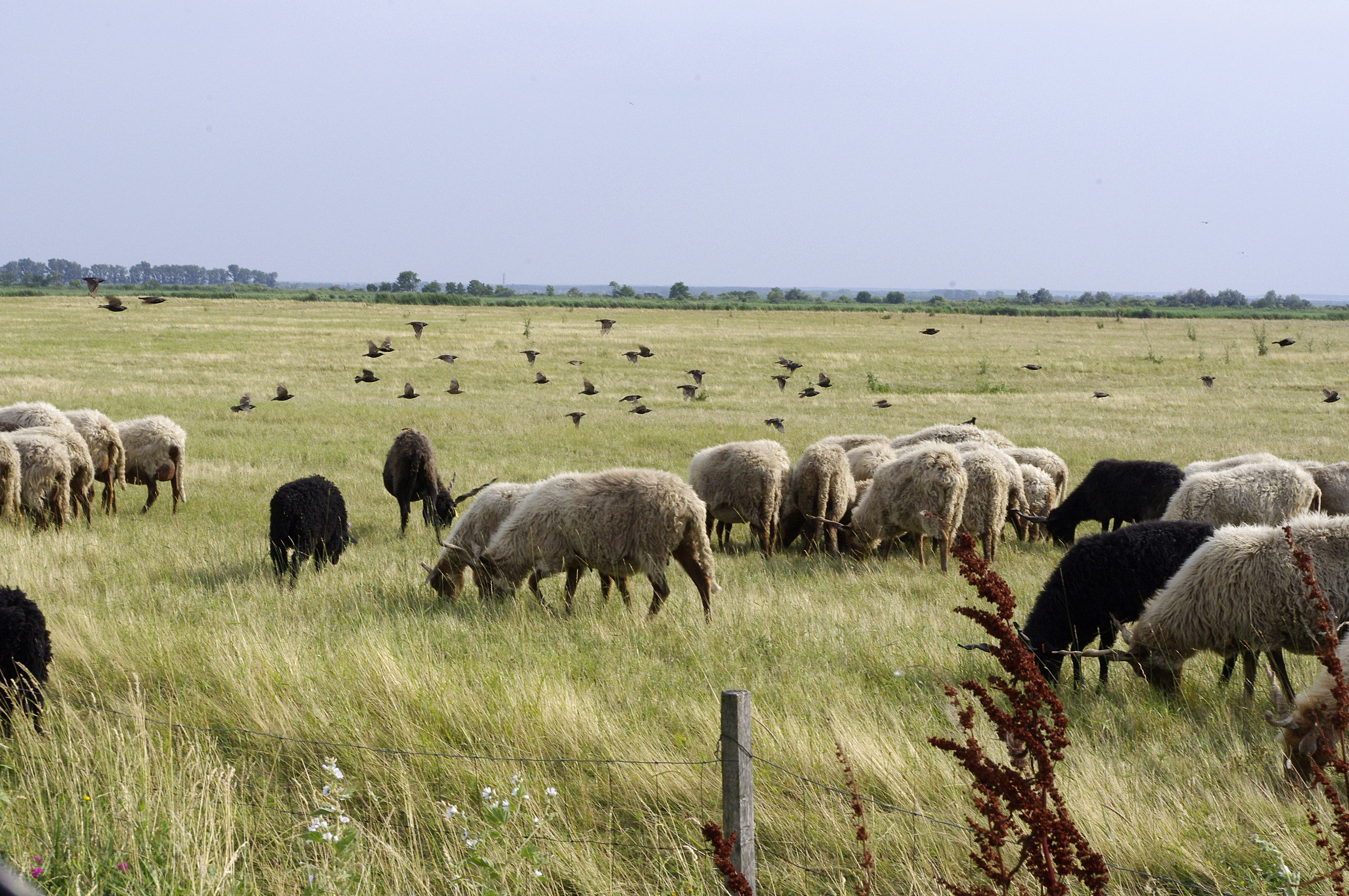 Fertő-Hanság national parc, Hungary - hungarian Zackel sheep(Ovis aries strepsiceros Hungaricus)